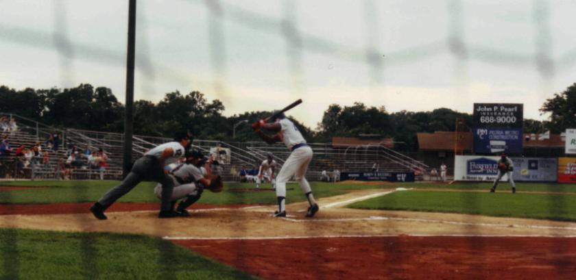 Peoria Chiefs in action in 1990. I took this picture.